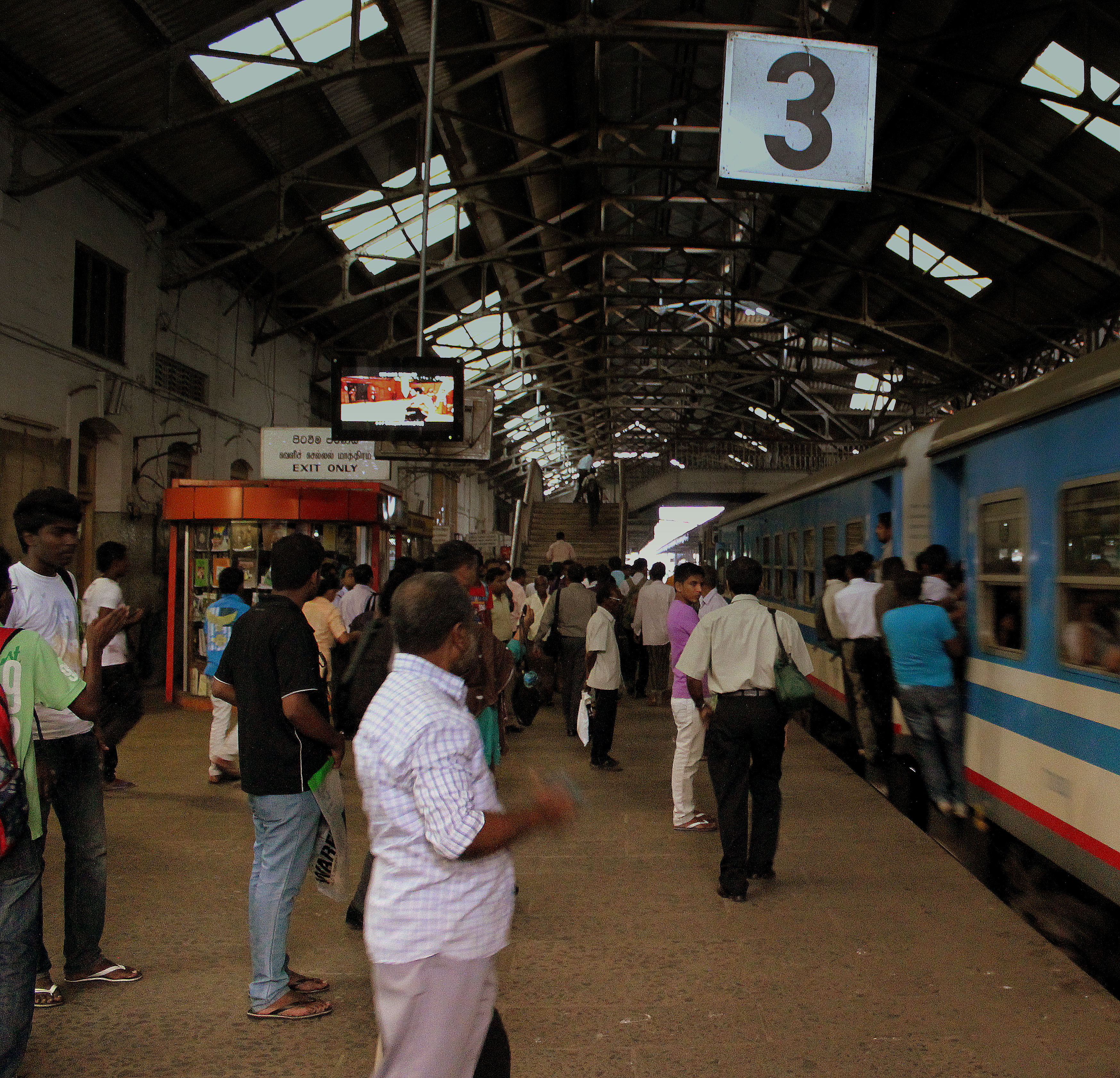 FORT STATION COLOMBO SRI LANKA JAN 2013